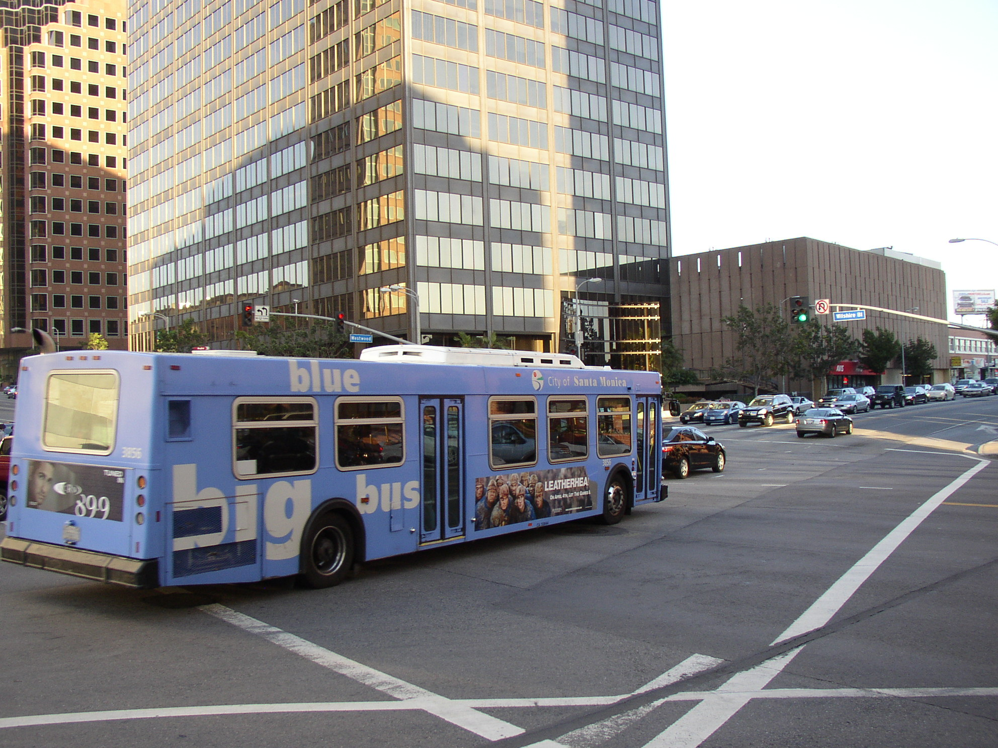 A picture of a Santa Monica Big Blue Bus taken on April 17, 2008 in Westwood, CA.